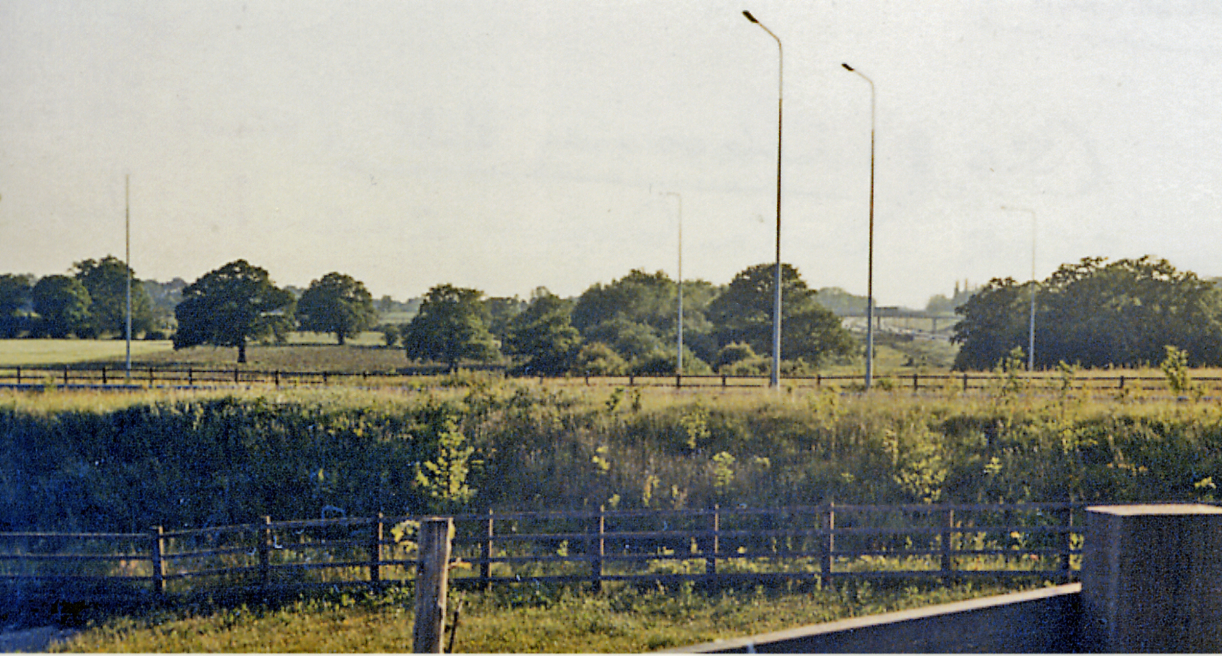 Site of Chevening Halt, former Westerham branch line, 1983. View westward from Chevening - Chipstead road whre it crosses the (new) A21(M) by Junction 5 of the M25, towards Westerham: ex-SE&C Dunton Green - Westerham branch, closed 3/10/61 - and largely swallowed up by the M25.